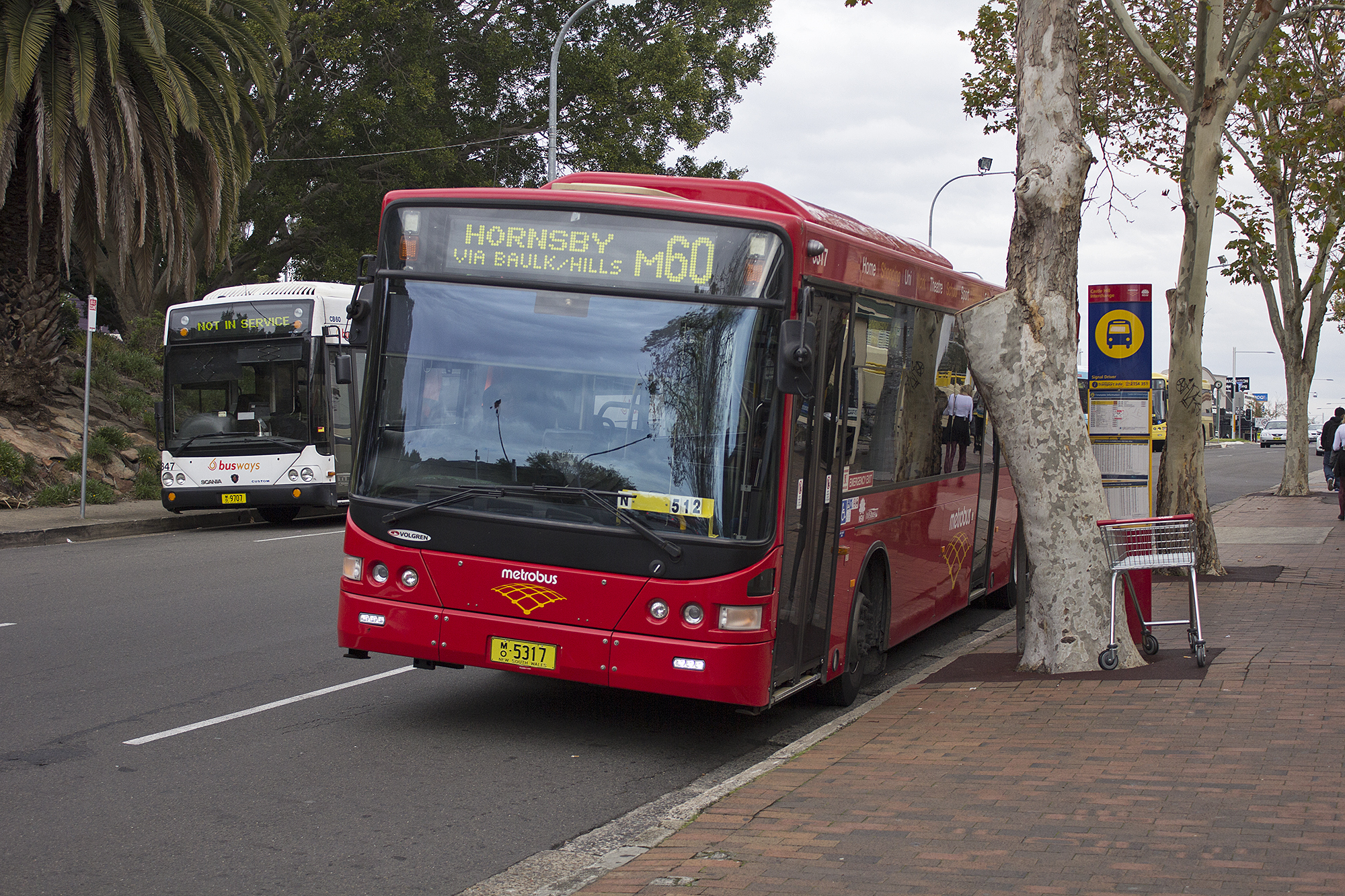 Busways (mo 9701) Custom Coaches 'CB60' bodied Scania K230UB and Metrobus livered (mo 5317) Volgren 'CR228L' bodied Volvo B7RLE operated by Hillsbus at Castle Hill Interchange in Castle Hill, New South Wales.